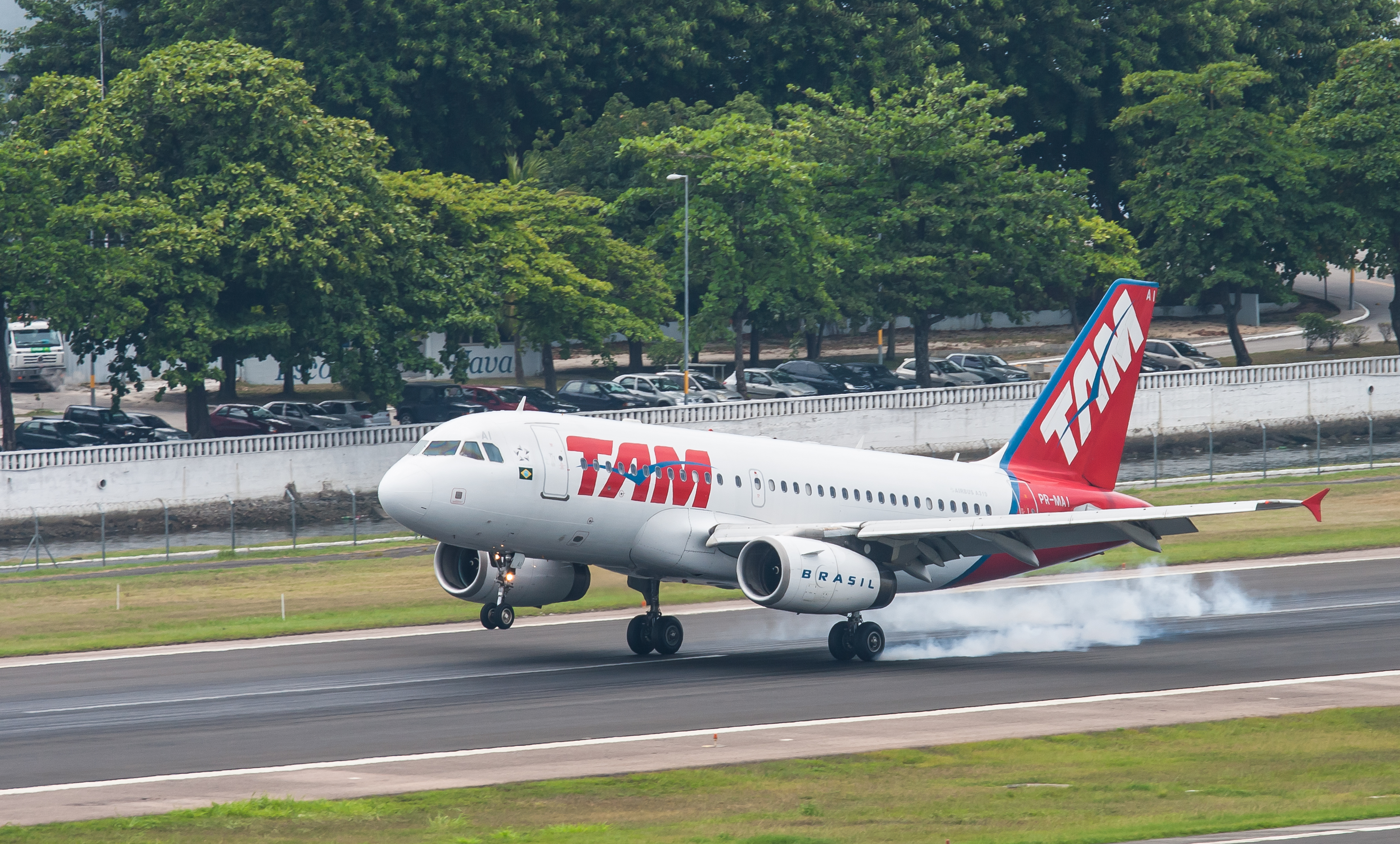 Touchdown!